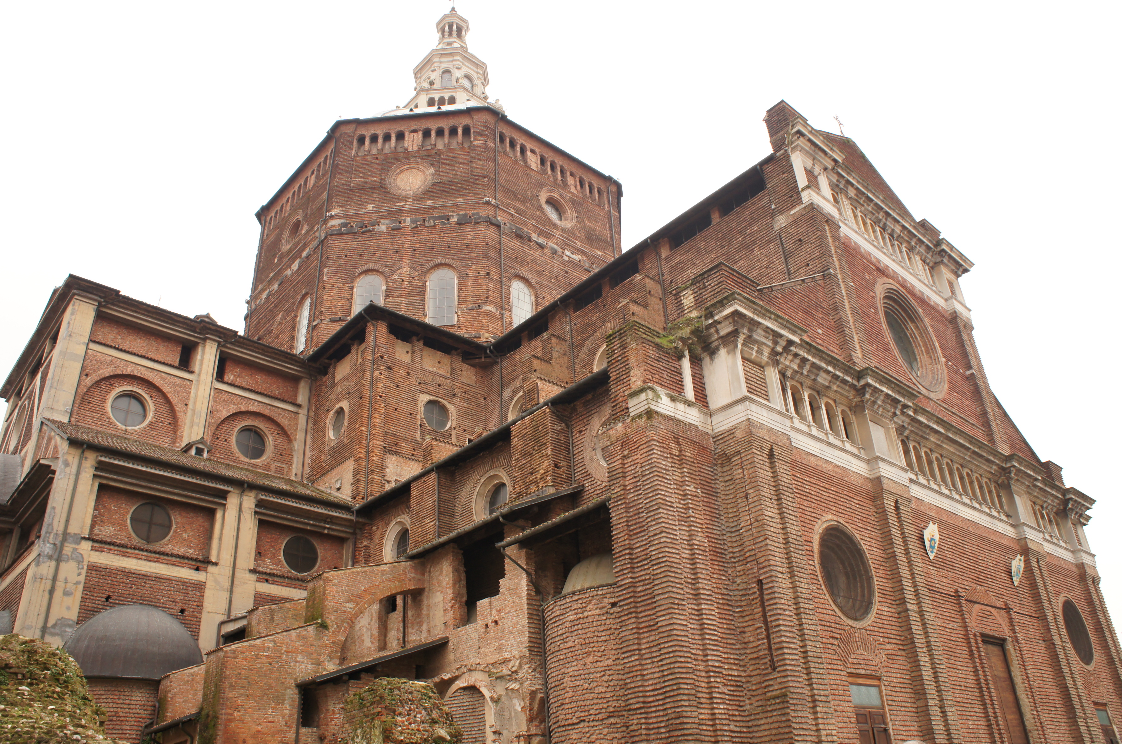 Cathedral of Pavia